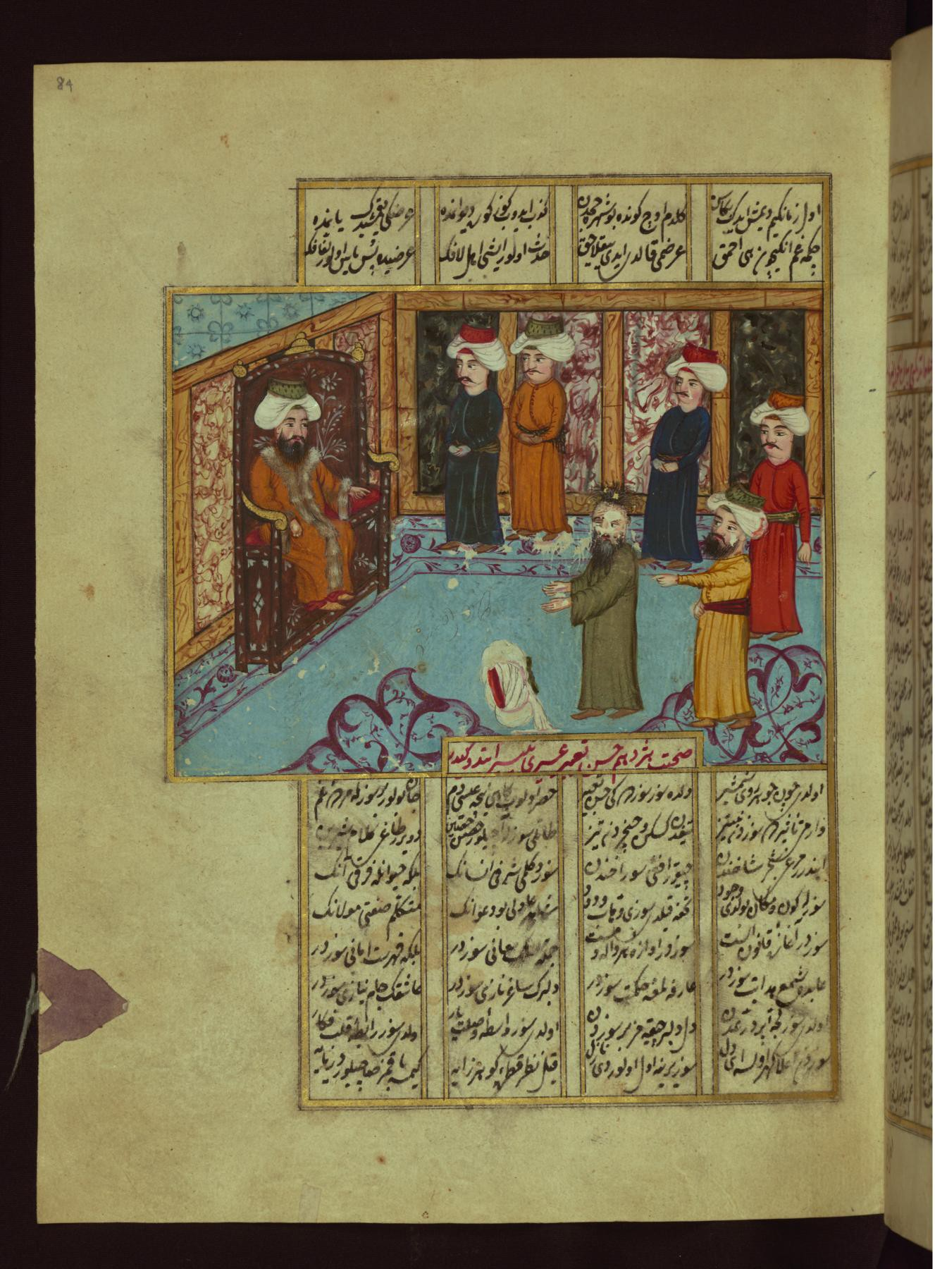 Khamsa by Atai (Walters MS 666)